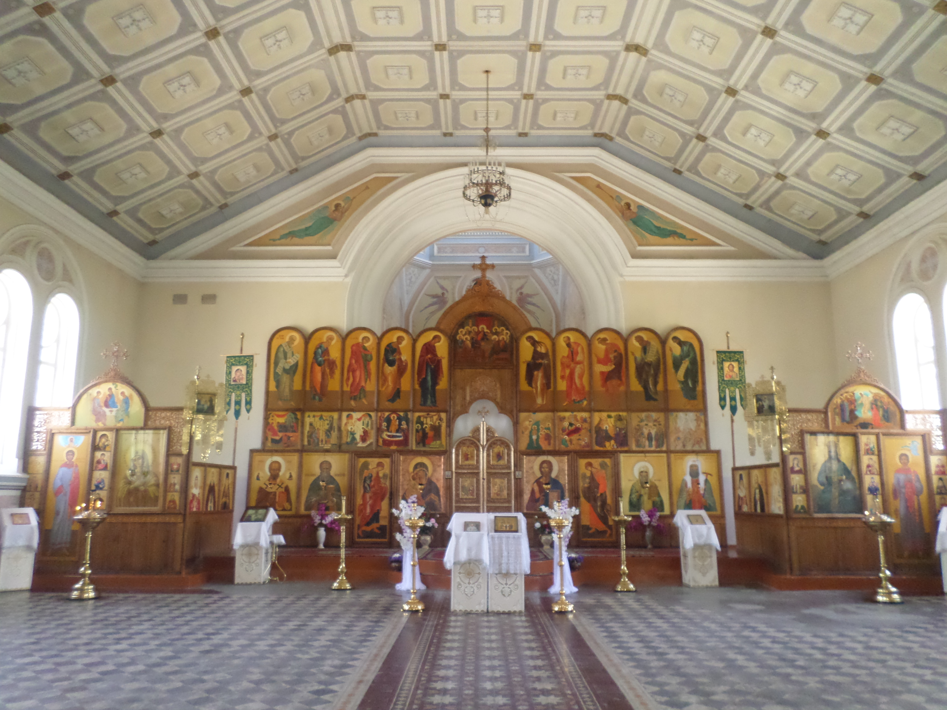 Cathedral of St. Alexis of Moscow to Samarkand